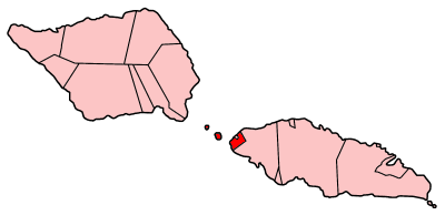 Map of Samoa showing Aiga-i-le-Tai district. Made by User:Golbez.